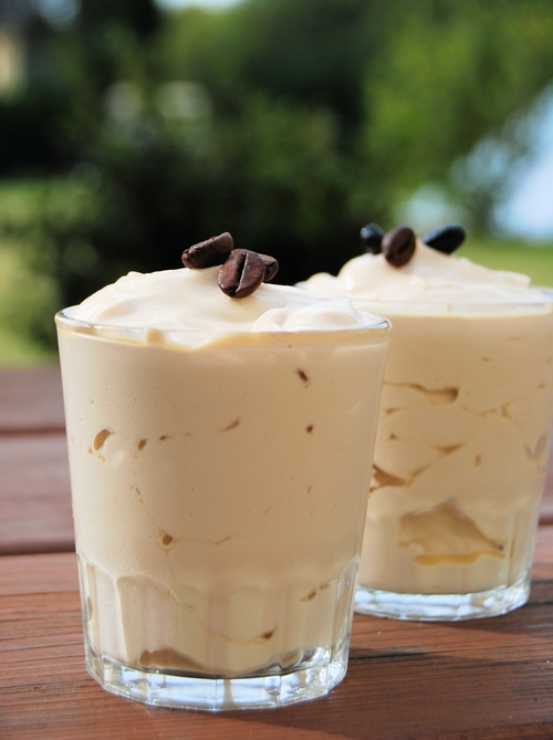 Coffee Mascarpone Crème.